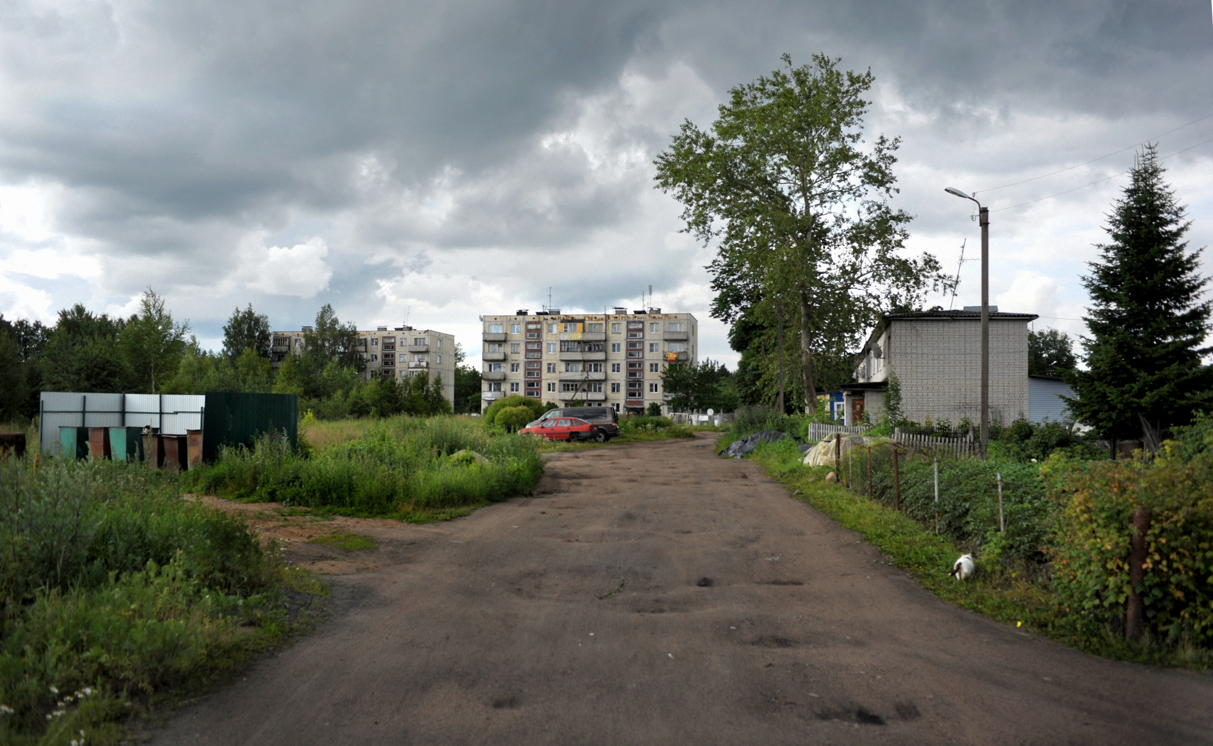 The northern village of Kaijala (Tokarevo) 14.7.2015